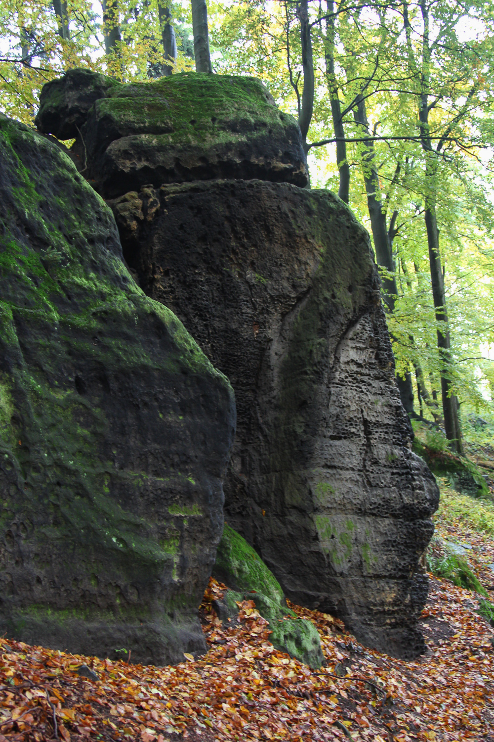 Sandstone outcrop, Ruzak hill.